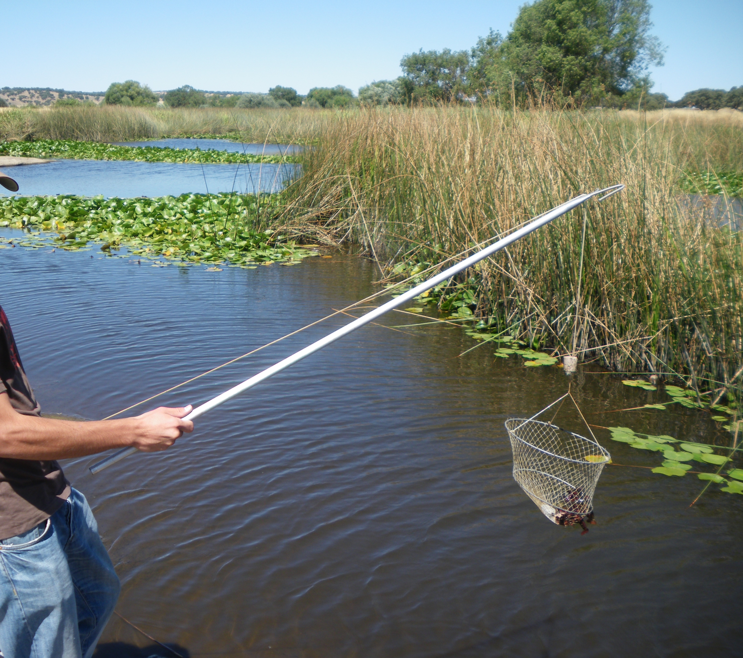 Photography when extract the crayfish out the river.